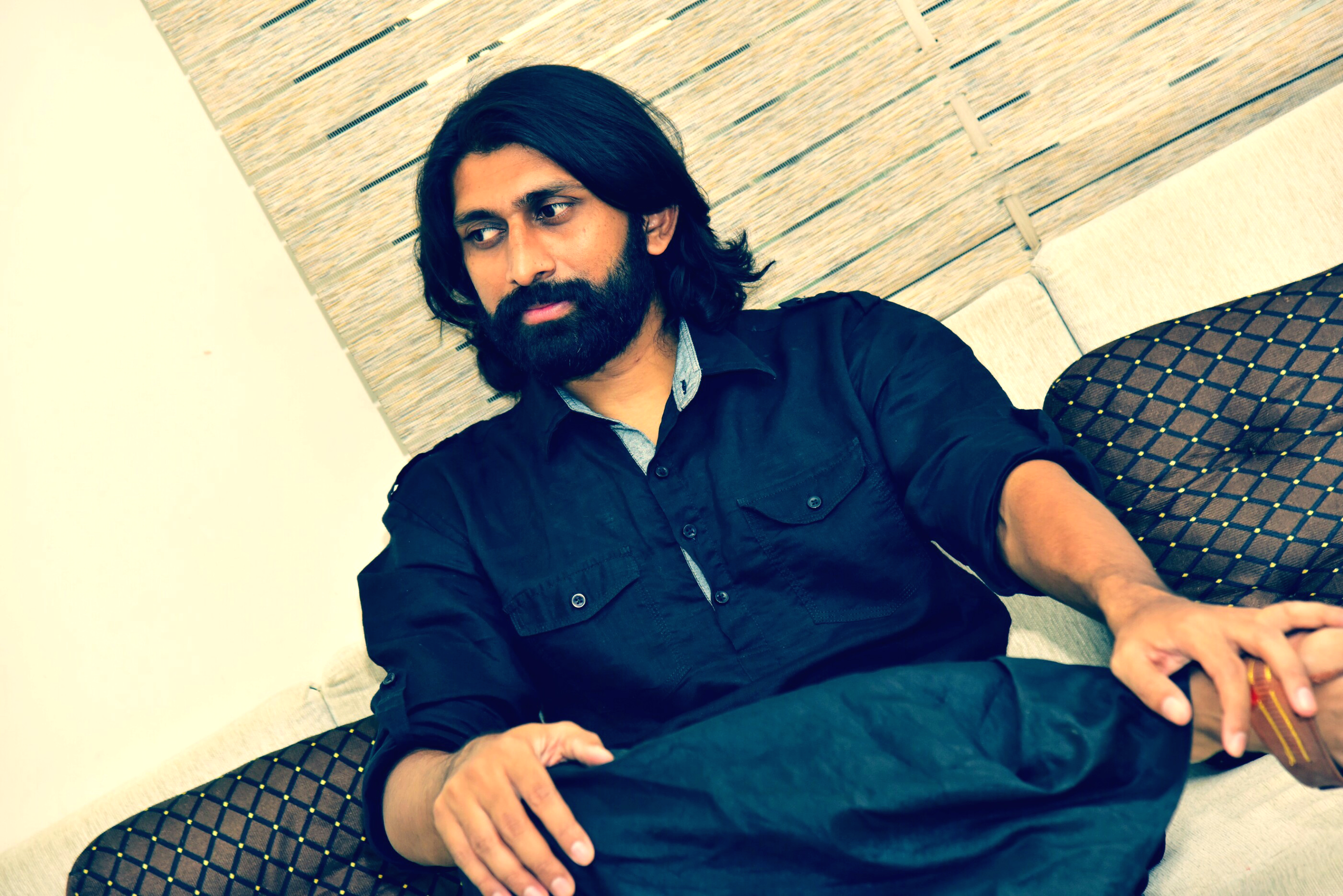 This is arjunraje bhosale's image